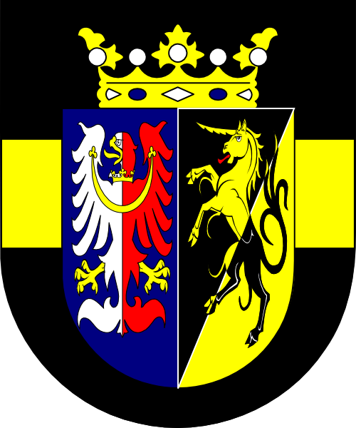 Coat of arms (shield only) of Alois Josef Krakovský z Kolovrat (21 January 1759 – 28 March 1833), bishop of Hradec Králové (1818 – 1830) and archbishop of Prague (1831 – 1833).